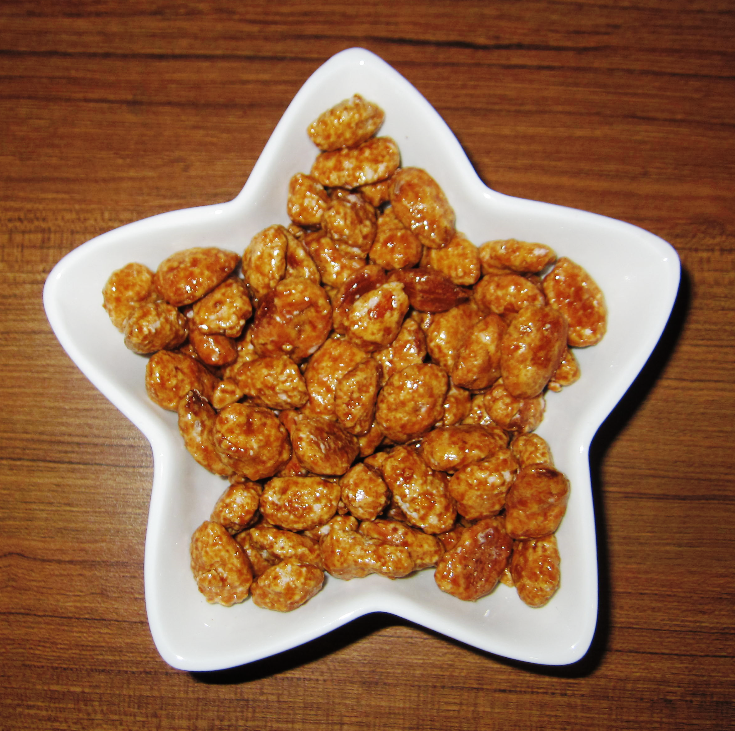 Badam sookhteh (burned almond), an Iranian sweet snack food made from almonds.